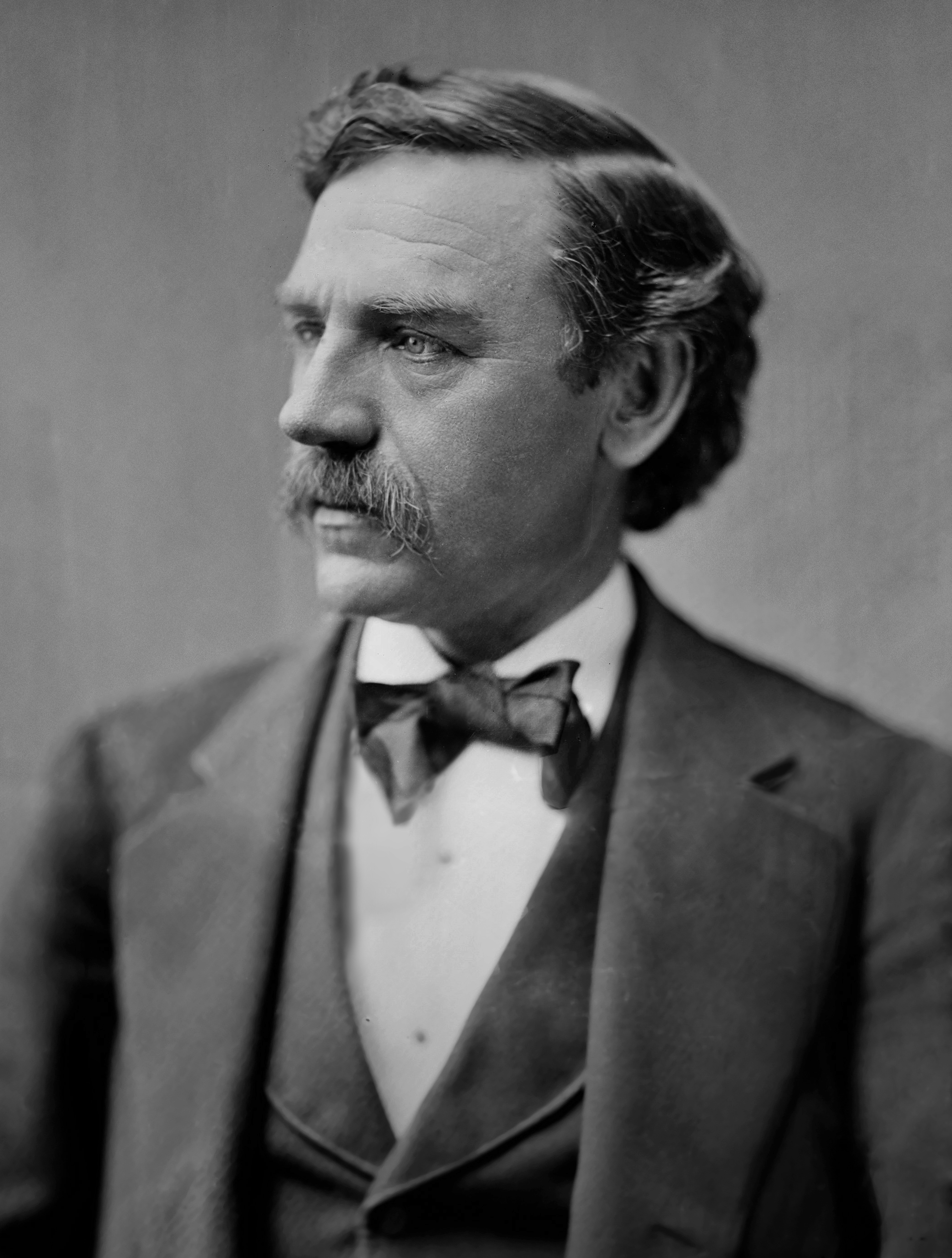 William P. Frye. Library of Congress description: "Frye, Hon. Senator Wm. P. of Maine"